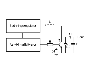 Boost generator